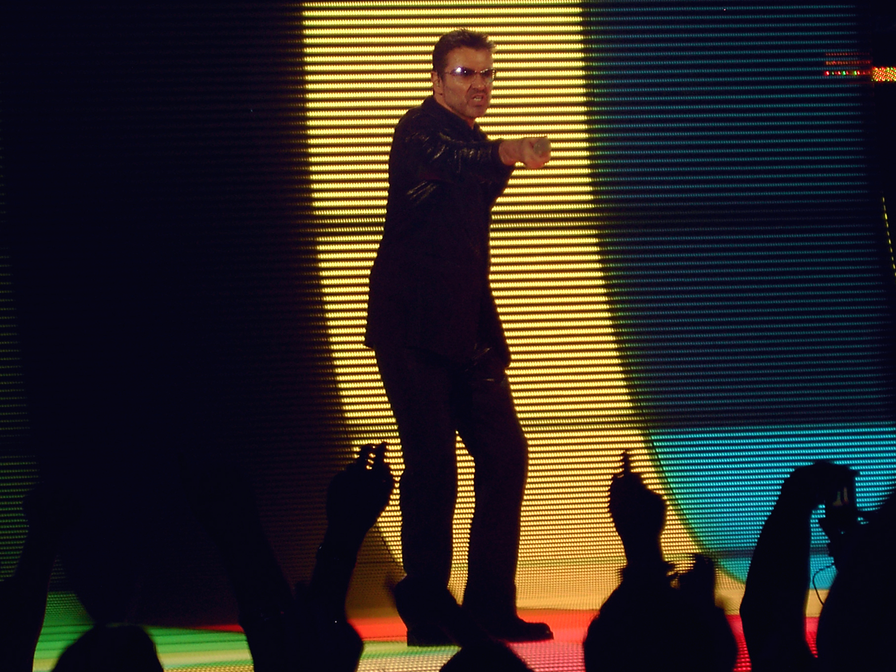 George Michael performing at the Olympiahalle arena (Munich, Germany) in 2006, for the 25 Live tour.